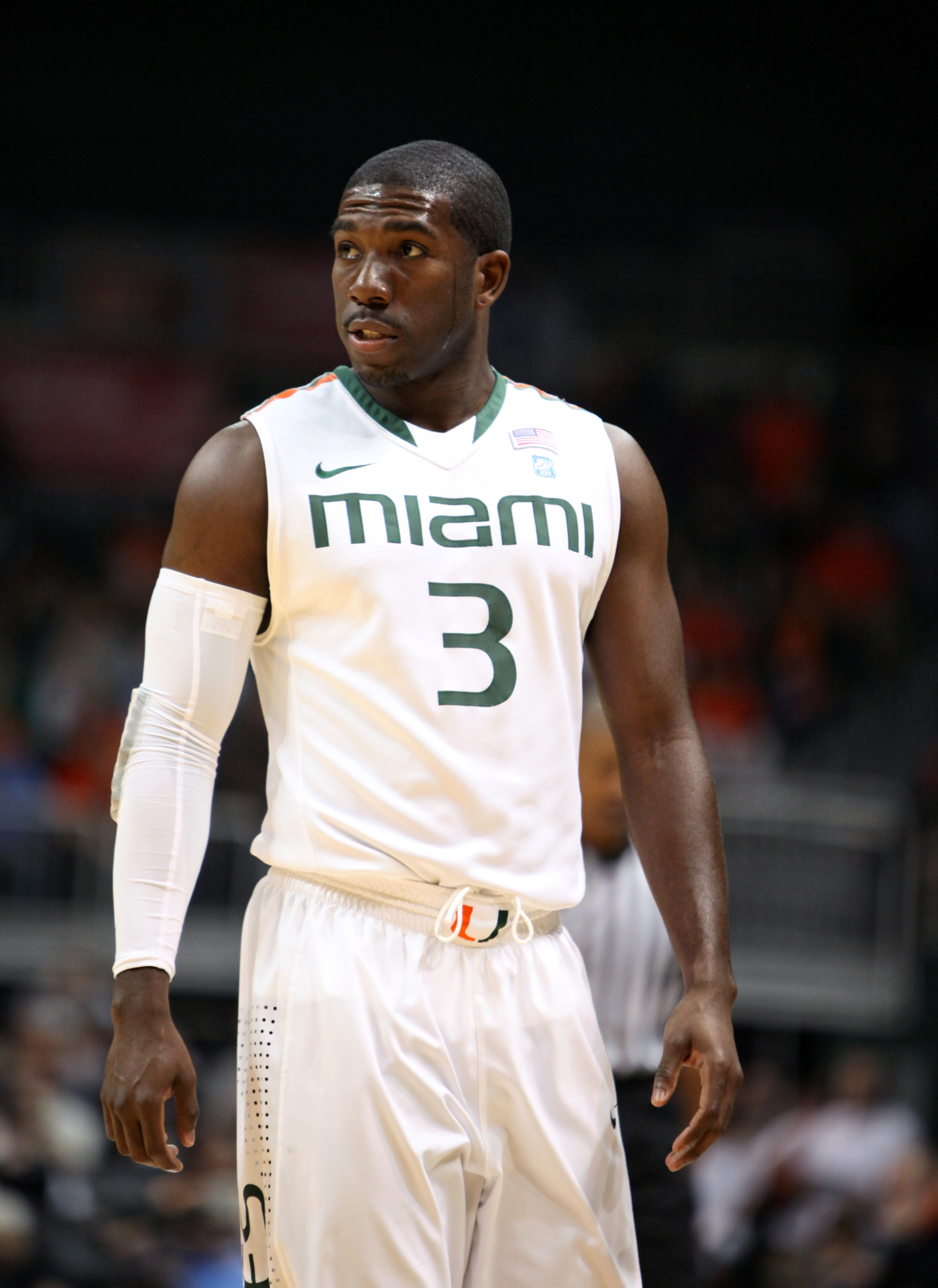 Miami Hurricanes guard Malcolm Grant (3) during the game between Miami and Duke at Bank United Center in Coral Gables, Florida.The Duke Blue Devils defeated the Miami Hurricanes 81-71